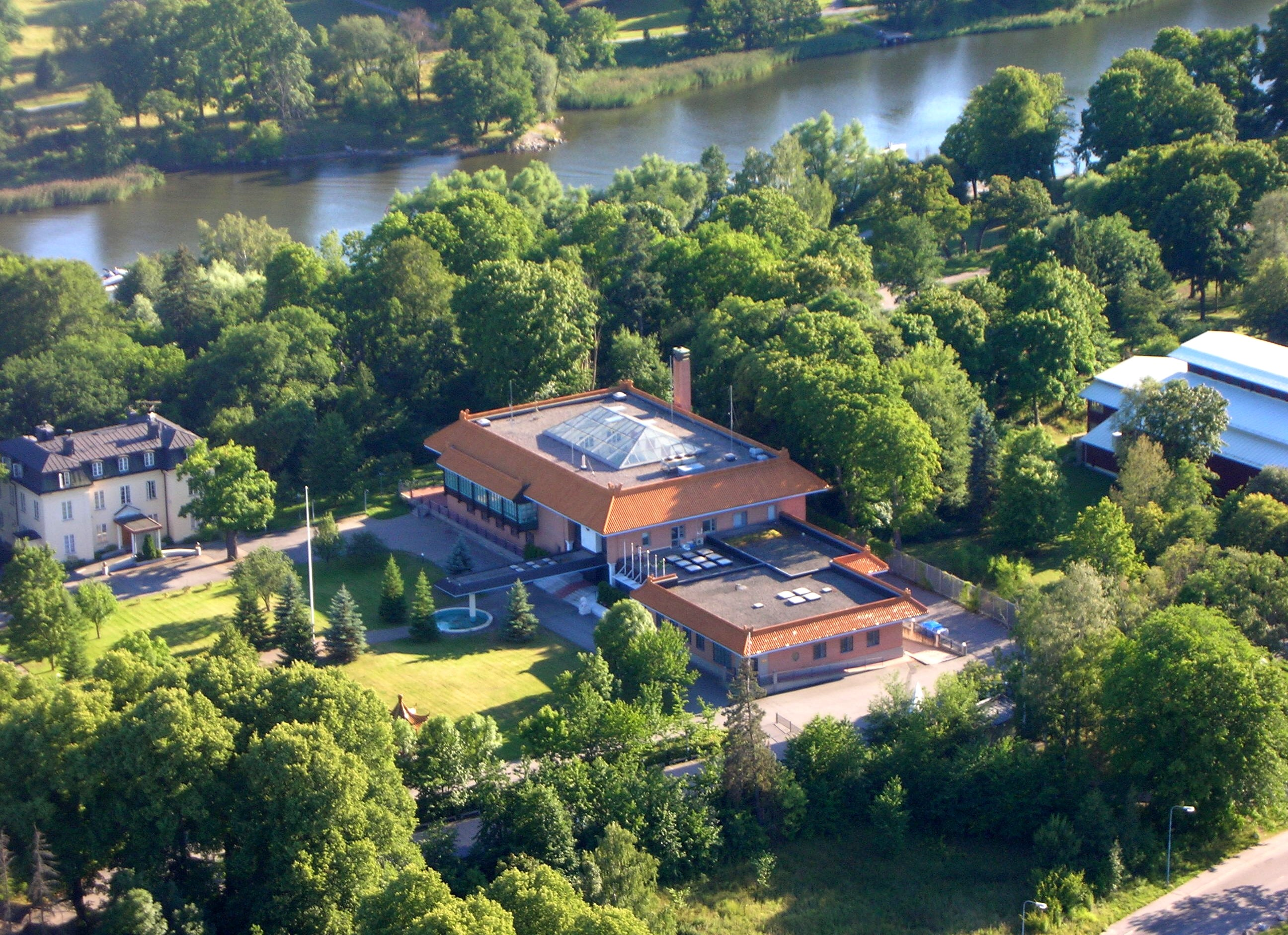 The embassy of People's Republic of China in Stockholm, seen from Kaknästornet.